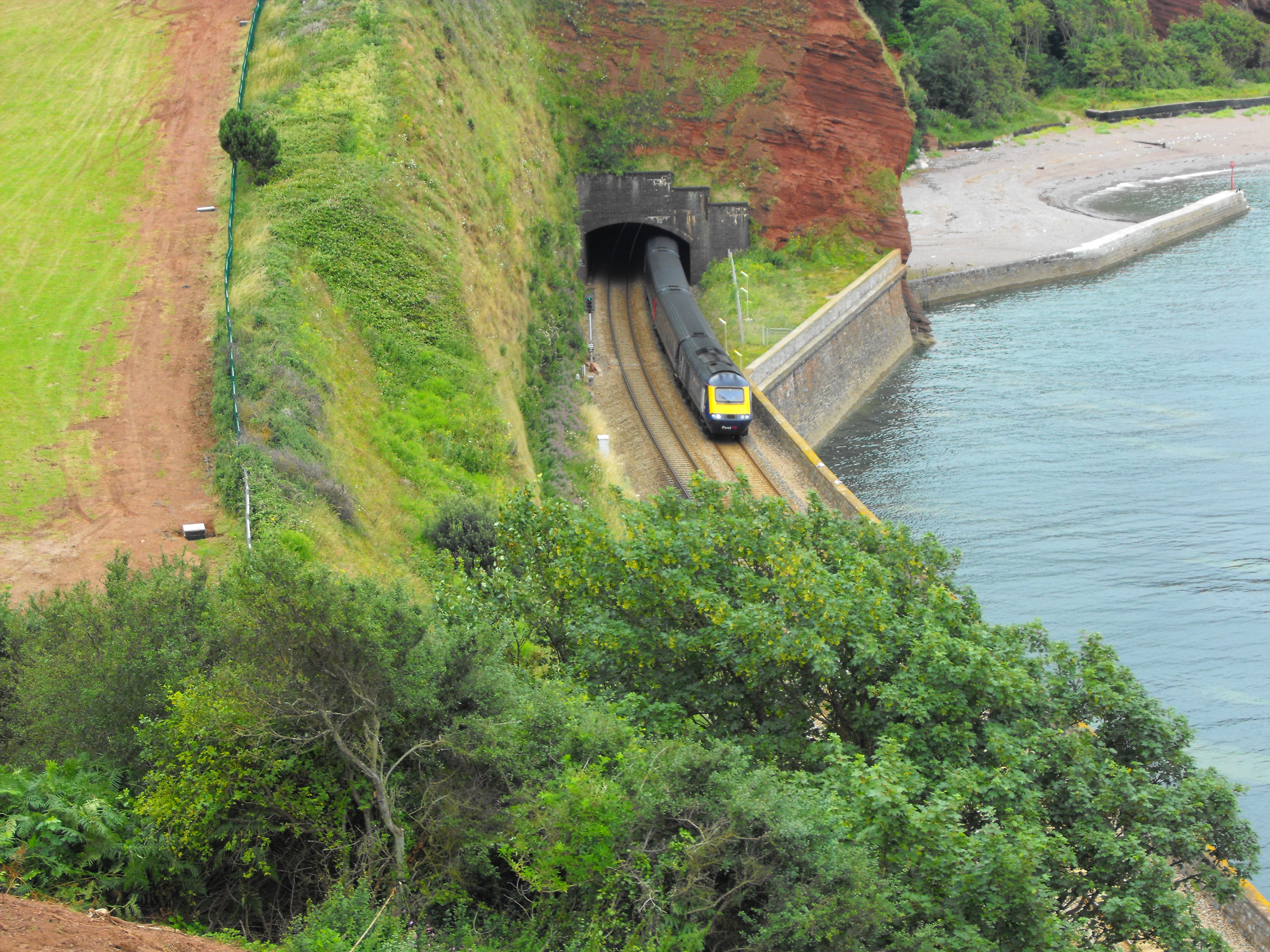 Tunnel between Dawlish and Teignmouth